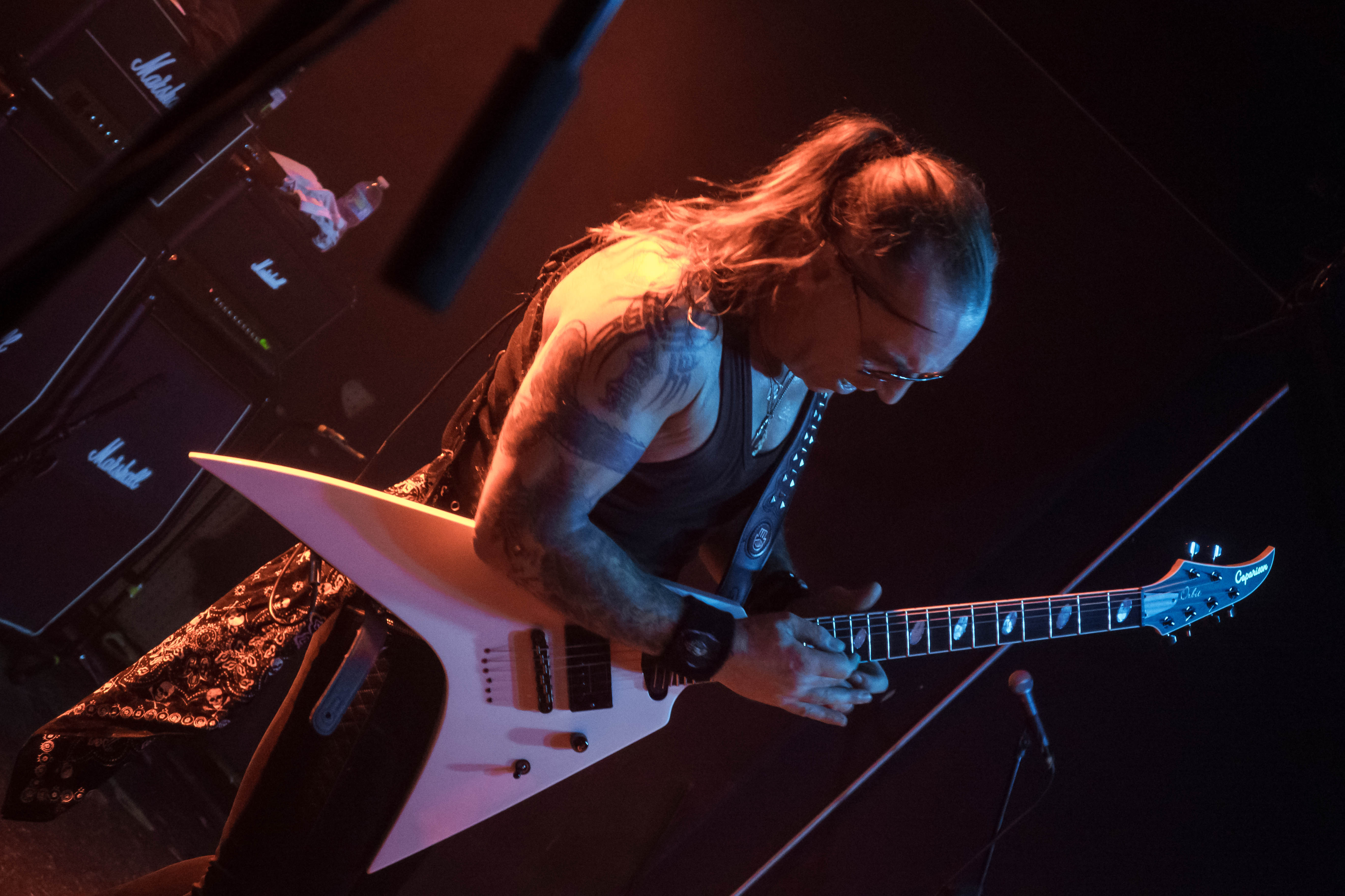 Venom Inc. performing at Saint Vitus Bar (Brooklyn, New York), October 3, 2017. Venom Inc. performing at Saint Vitus Bar (Brooklyn, New York), October 3, 2017.